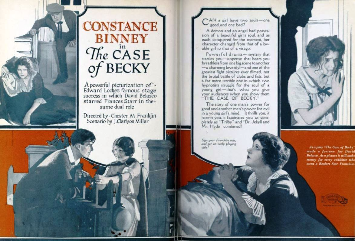 Advertisement for the American silent drama film The Case of Becky (1921) with Constance Binney and Glenn Hunter, from the insert after page 10 of the September 24, 1921 Exhibitors Herald.